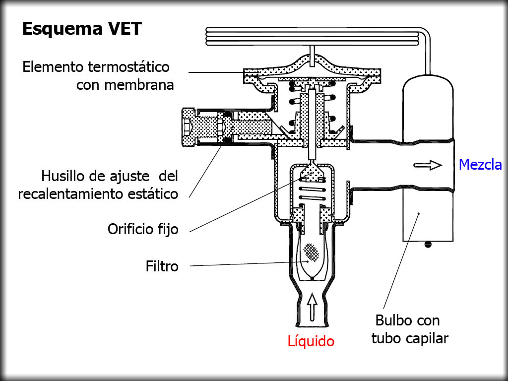 Thermostatic Expansion Valve Diagram.